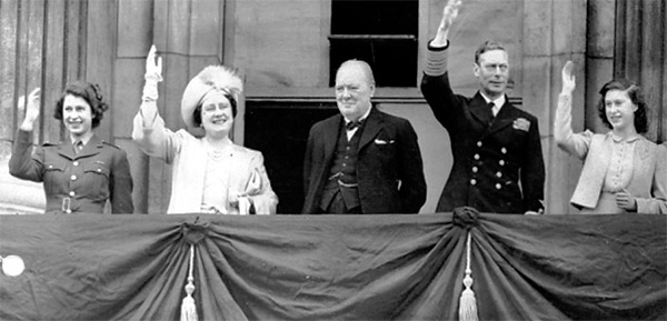 Churchill and the Royal Family on VE Day